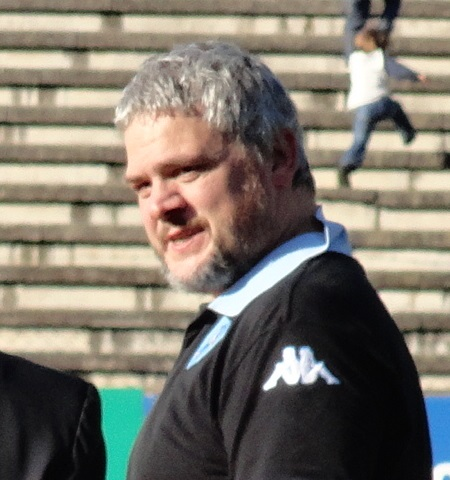 Teros coach Pablo Lemoine at the repechage qualifier match for the 2015 Rugby World Cup between Uruguay and Rusia